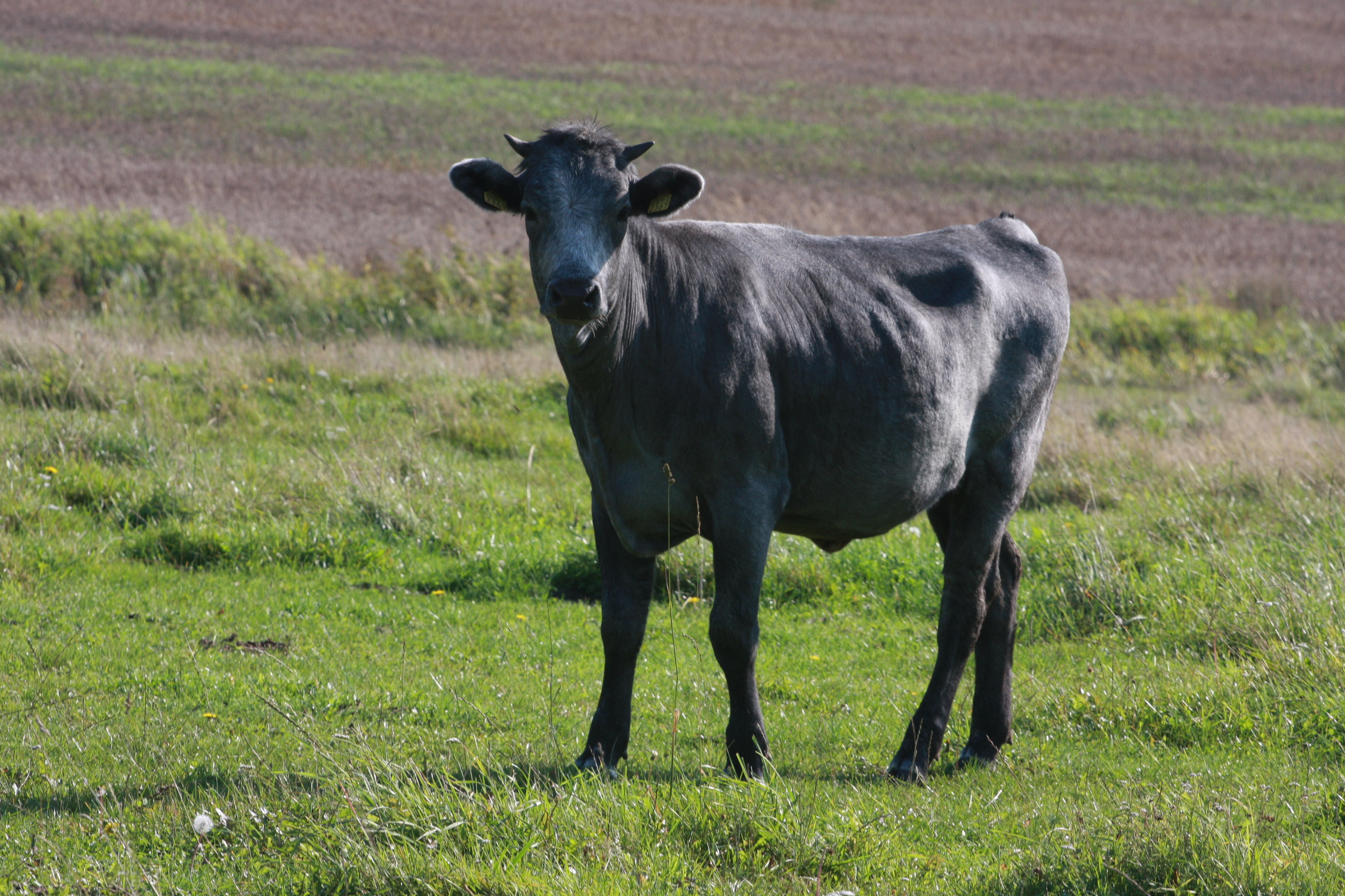 Latvian blue cow.